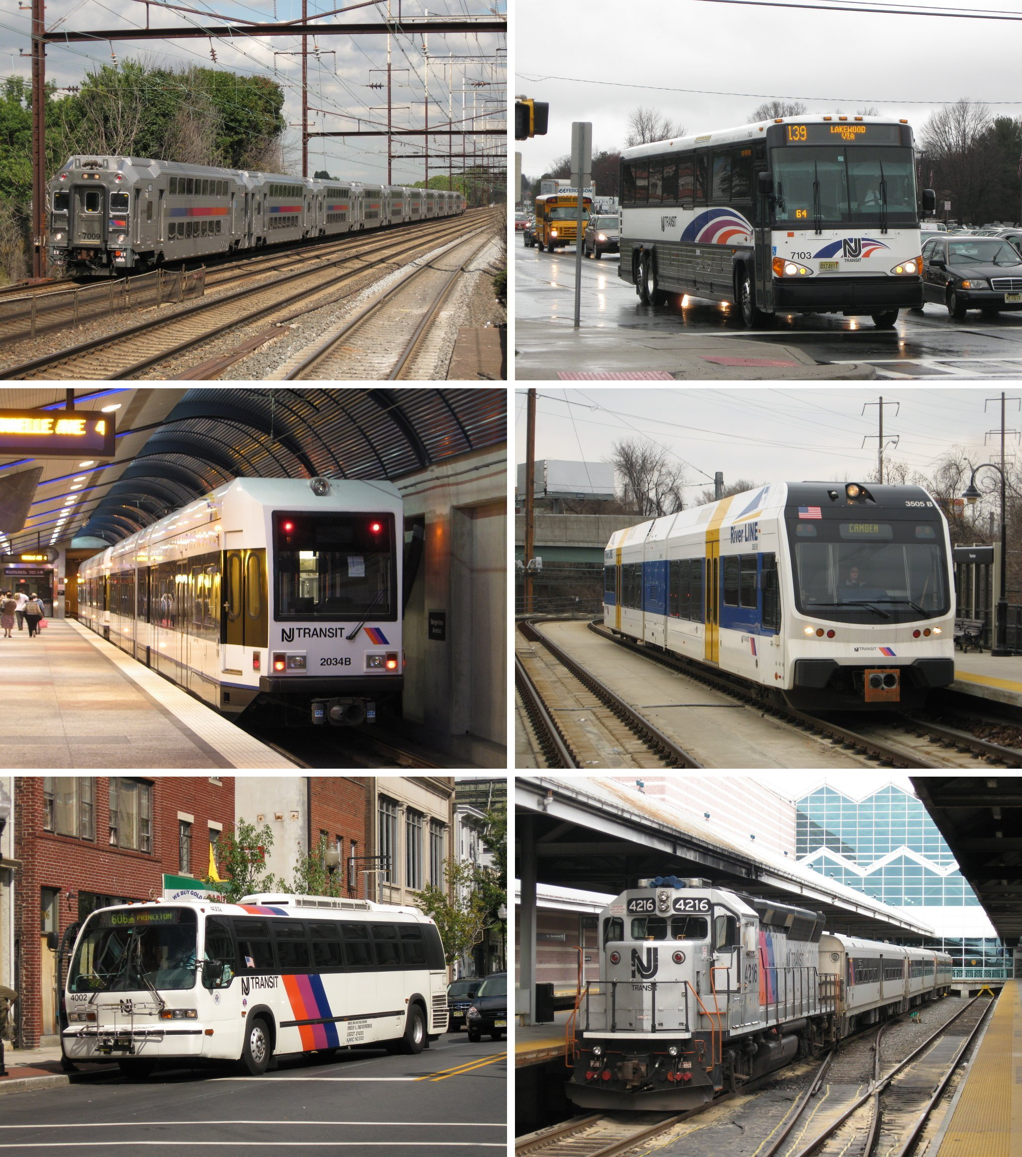 Top left: Train 3945 on the Northeast Corridor Line enters New Brunswick. Top right: MCI D4500CT #7103, a unit built for MTA New York City Transit but never operated by them, waits at a light on US 9 in Old Bridge on the 139. Center left: Hudson-Bergen Light Rail Kinkisharyo 2034 stopped at Bergenline Avenue station, the only underground station in the system. Center right: River Line Stadler DMU 3505 enters the Trenton Rail Station. Bottom left: Nova Bus RTS 82VN hybrid #4002 operates in Trenton. Bottom right: Train 4216 waits to depart Atlantic City Rail Terminal.